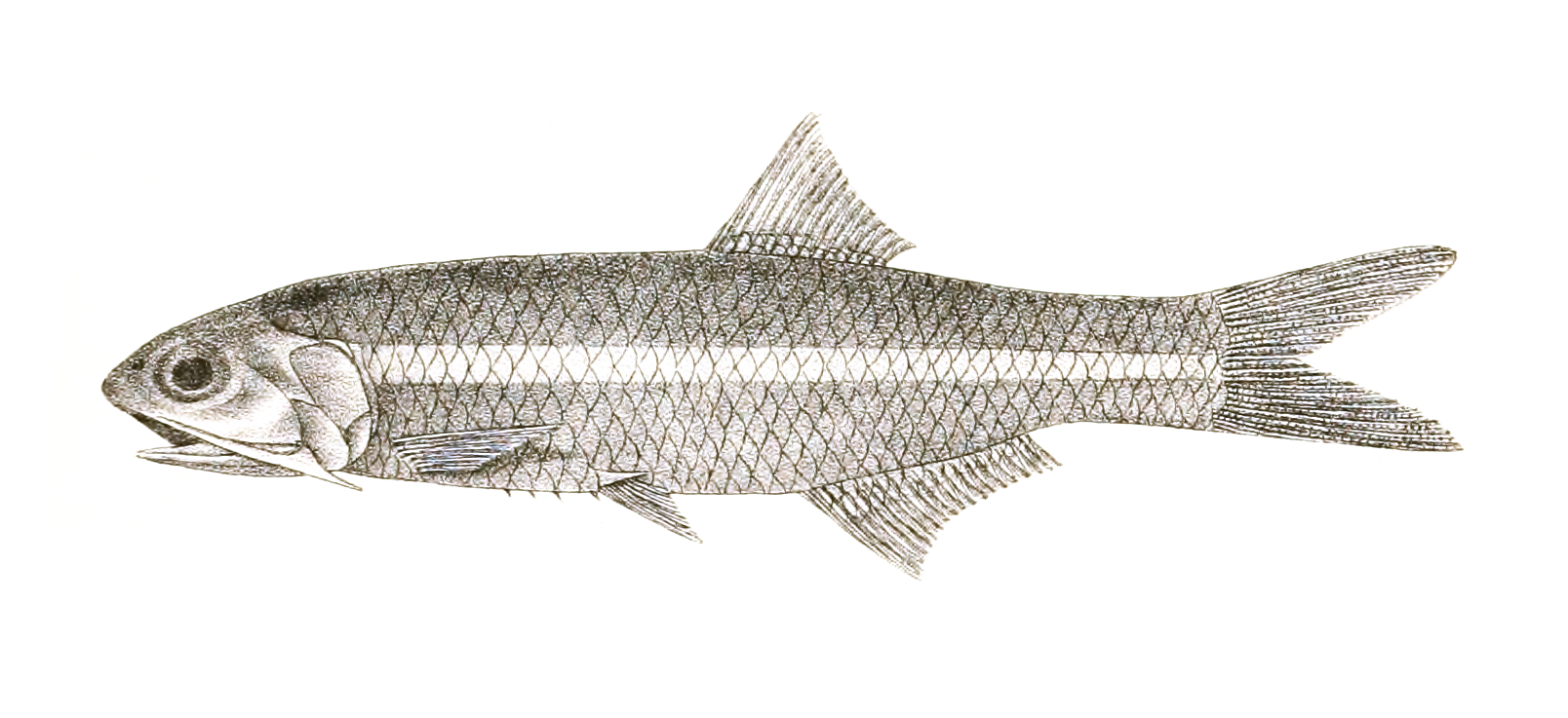 Stolephorus commersonnii syn. Engraulis commersonianus The species names / identity need verification - original names from plate are included here. The original plates showed the fishes facing right and have been flipped here. Engraulis commersonianus